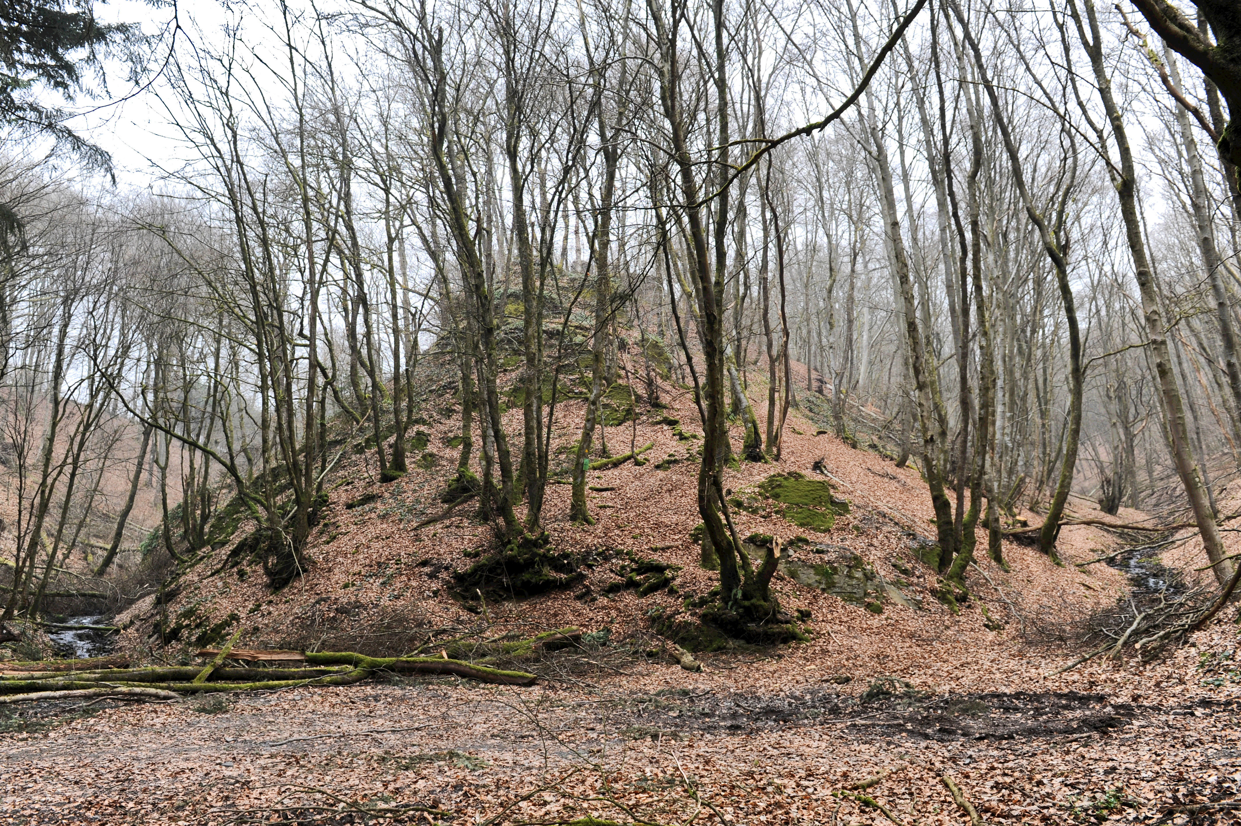 The ruins of the Schuerels Castle are located near Eschette (Oesling) in Luxembourg and are situated on the top of the hill surrounded by the valleys of the two brooks seen in the picture.